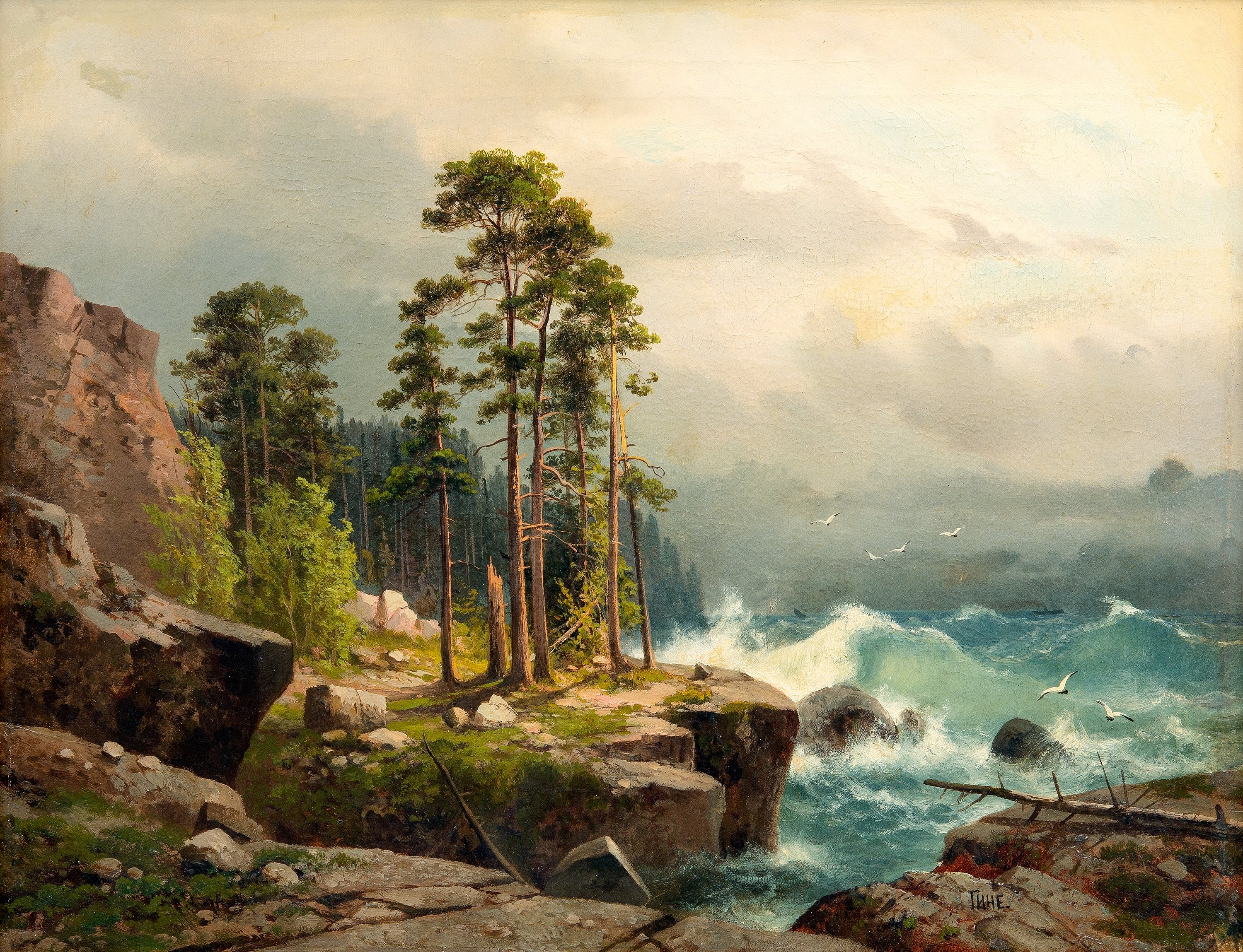 Aleksander Gine Stormy seas. Oil on canvas 50x65 cm.